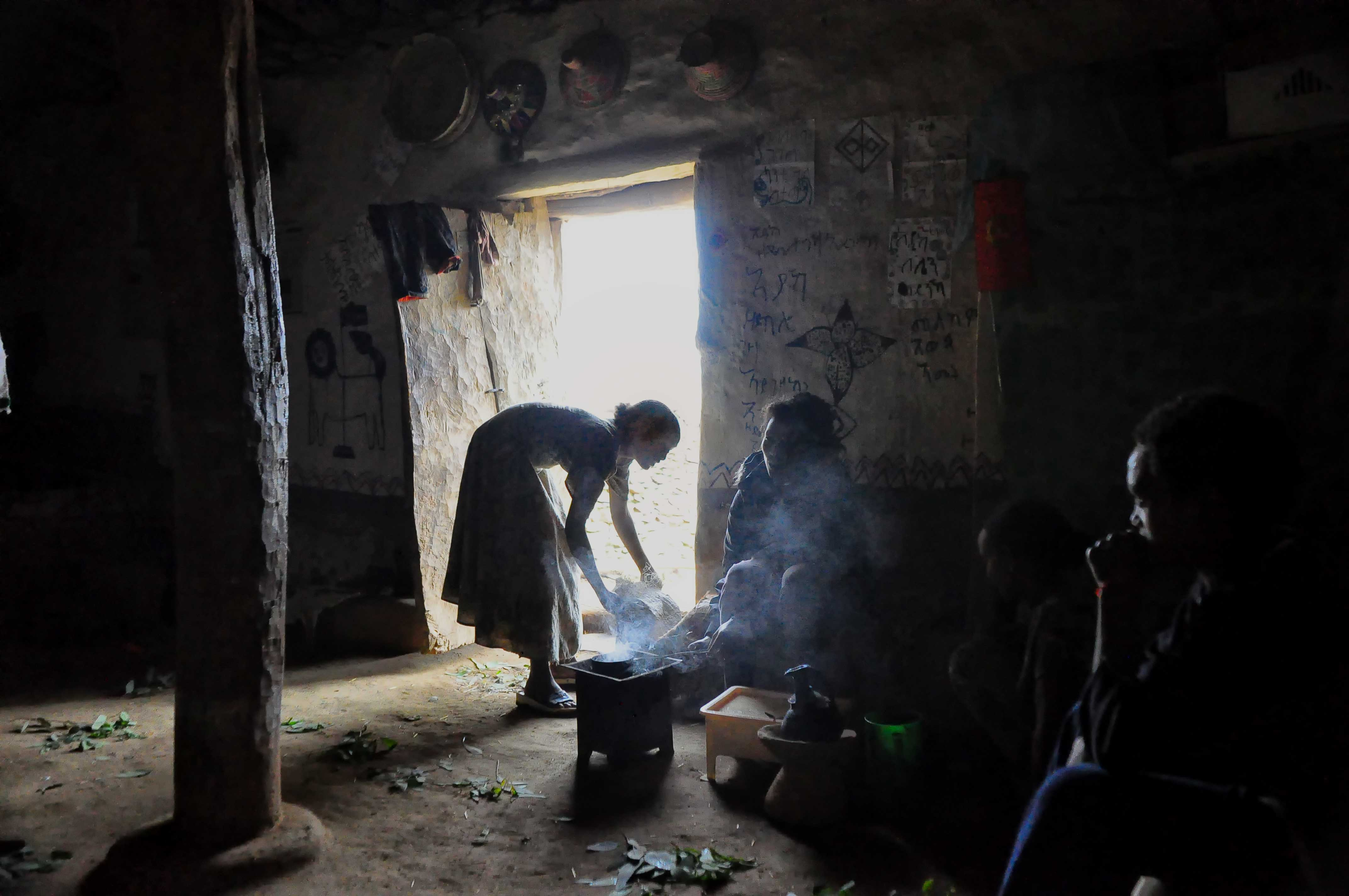 Tigray, Ethiopia